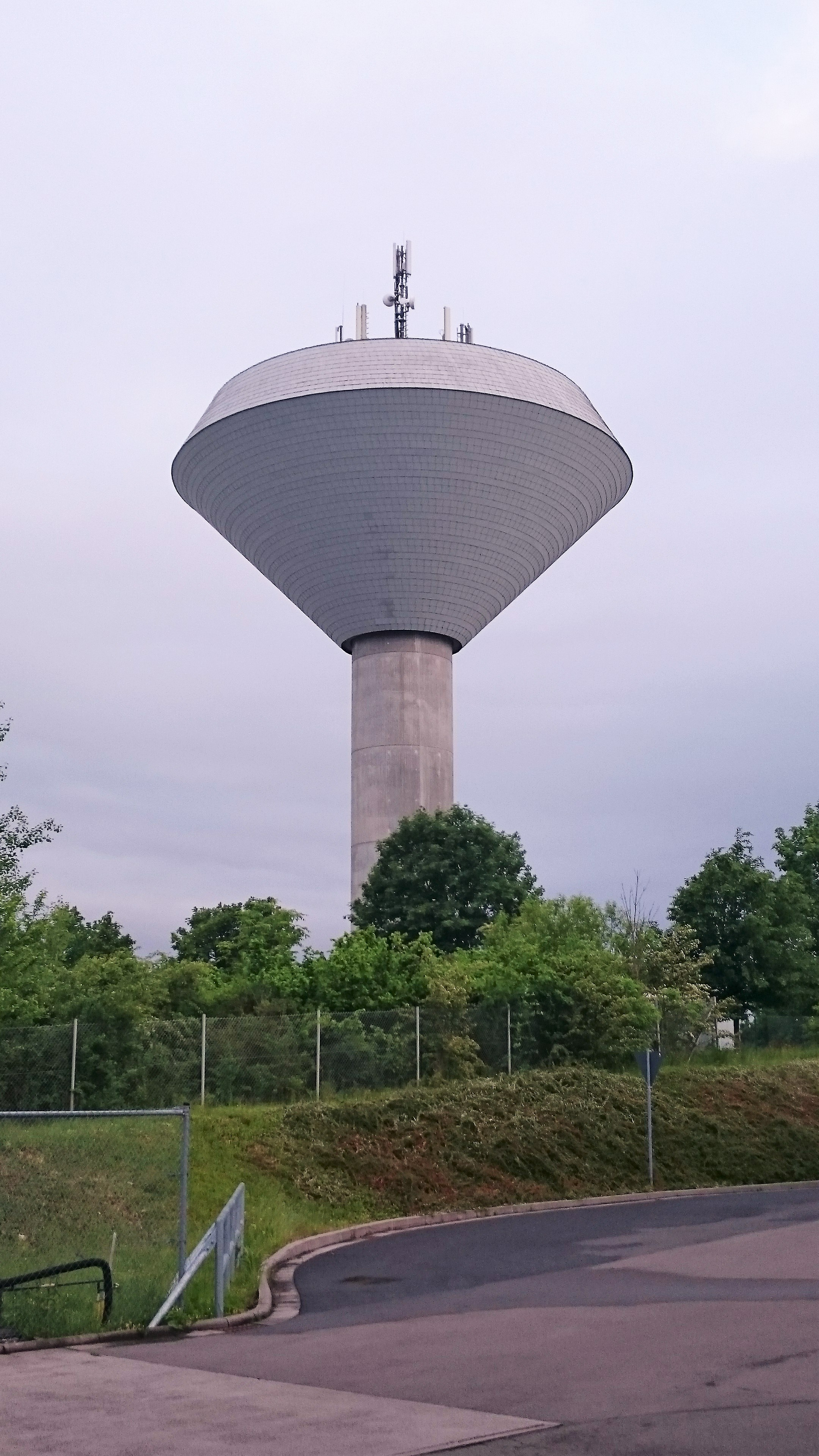 Water Tower in city of Meiningen, Dreißigcker. High: 45 Meter, tank volume: 1000 m3 , built in 1992.